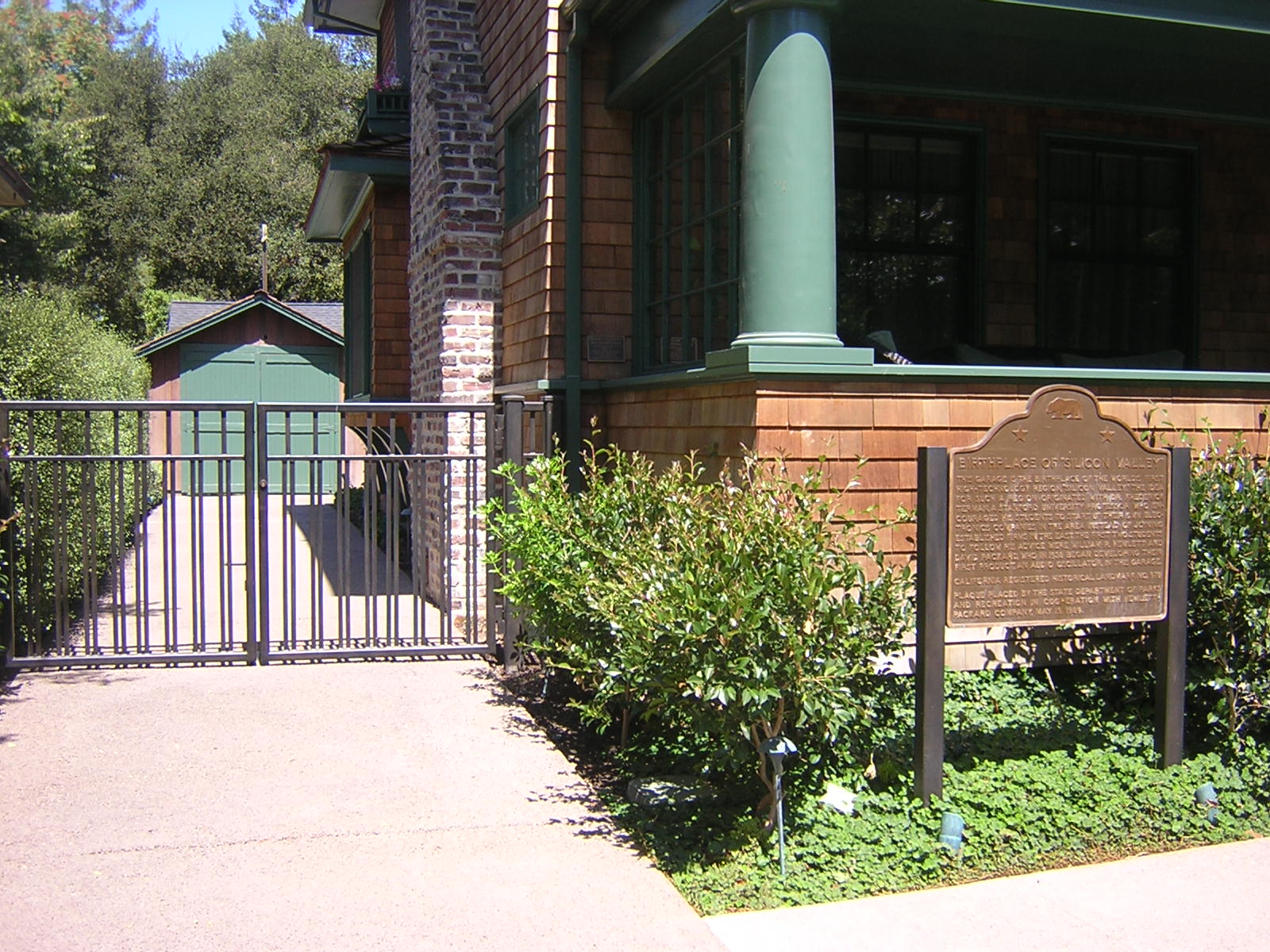 Hewlett Packard Garage, Silicon Valley.